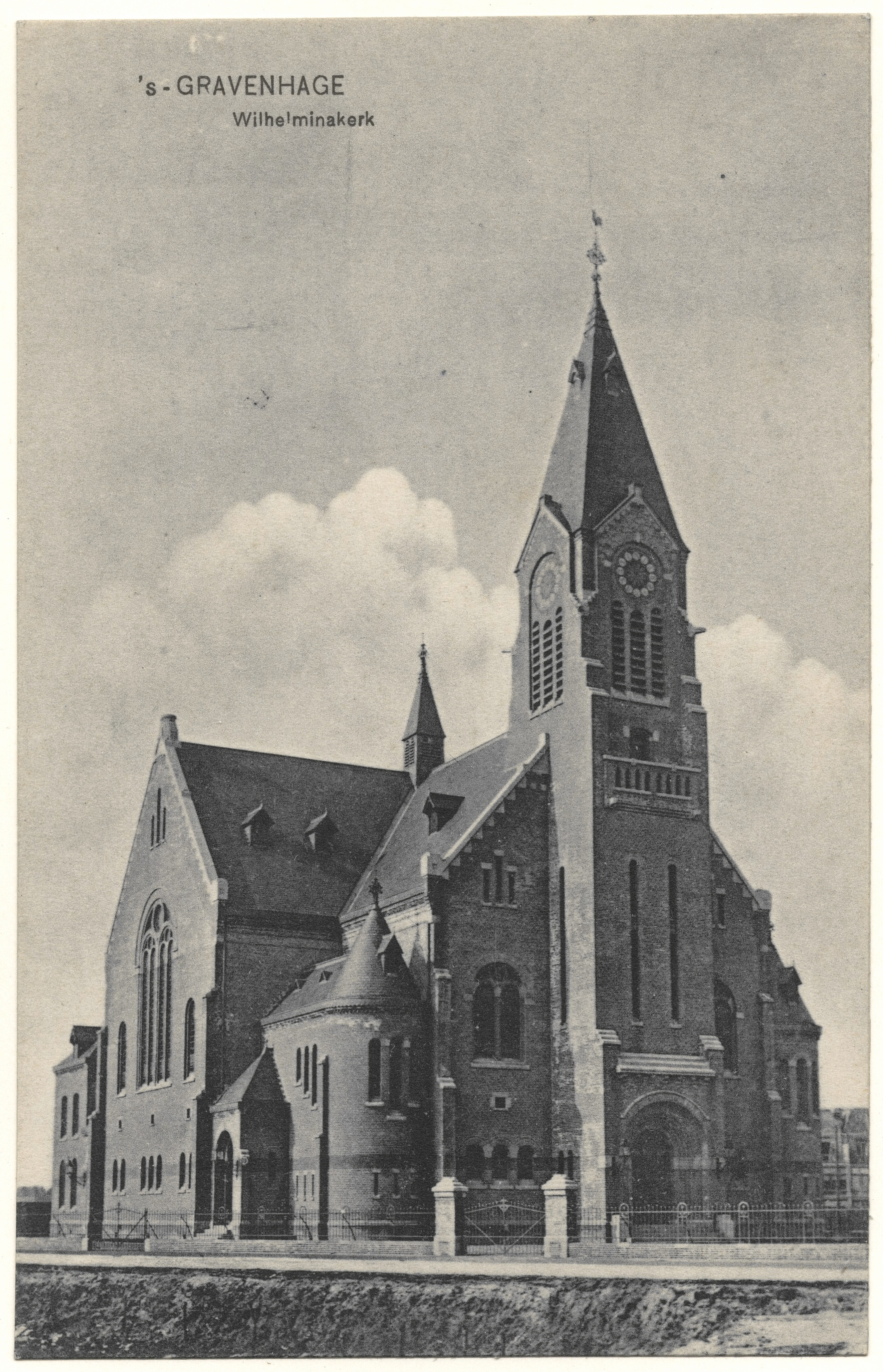 The Wilhelminakerk at Louise de Colignyplein number 6 in the Bezuidenhout district in The Hague. The church was destroyed during the bombing of Bezuidenhout on 3 March 1945.